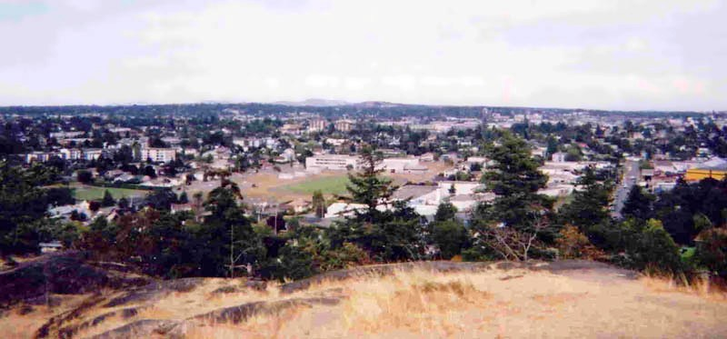 Skyline of Esquimalt, looking northeast (Personal snapshot released under the GNU FDL)